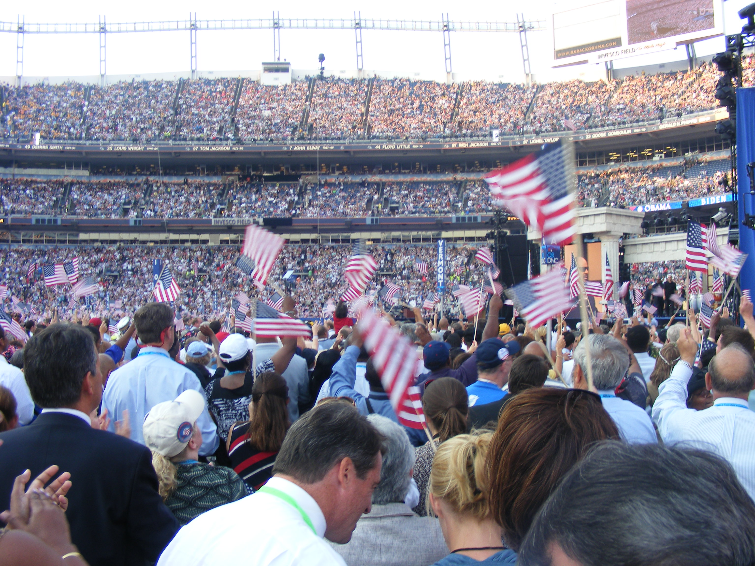 inside invesco field during 2008 dnc